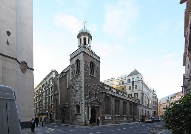 St Katharine Cree, Leadenhall Street, London EC3